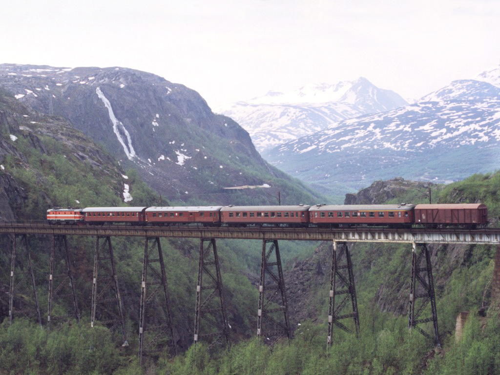 Train passing on the Nordalen bridge in Narvik, Norway. 1988 was the last year this bridge was in use before being replaced with a smaller concrete bridge a short distance north